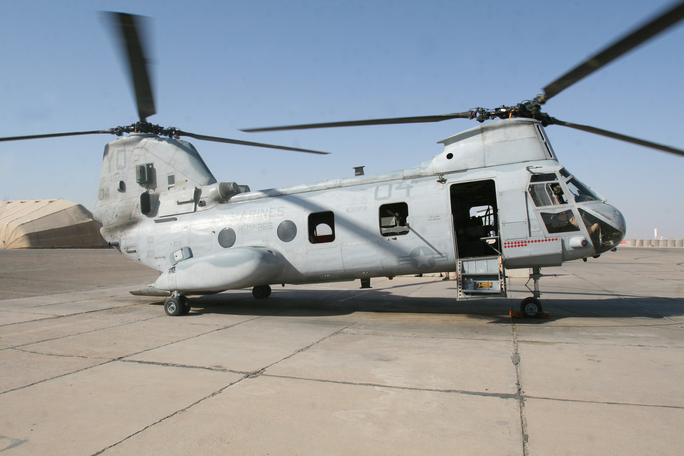 A CH-46 Sea Knight helicopter spins its rotors in Marine Medium Helicopter Squadron 364's working space just before a casualty evacuation mission at Al Taqaddum, Iraq, Aug. 31. The Purple Foxes of HMM-364, Marine Aircraft Group 16 (Reinforced), 3rd Marine Aircraft Wing (Forward), assumed authority from the Red Dragons of HMM-268 Aug. 29, for providing casualty evacuation, general transportation and raid flights.